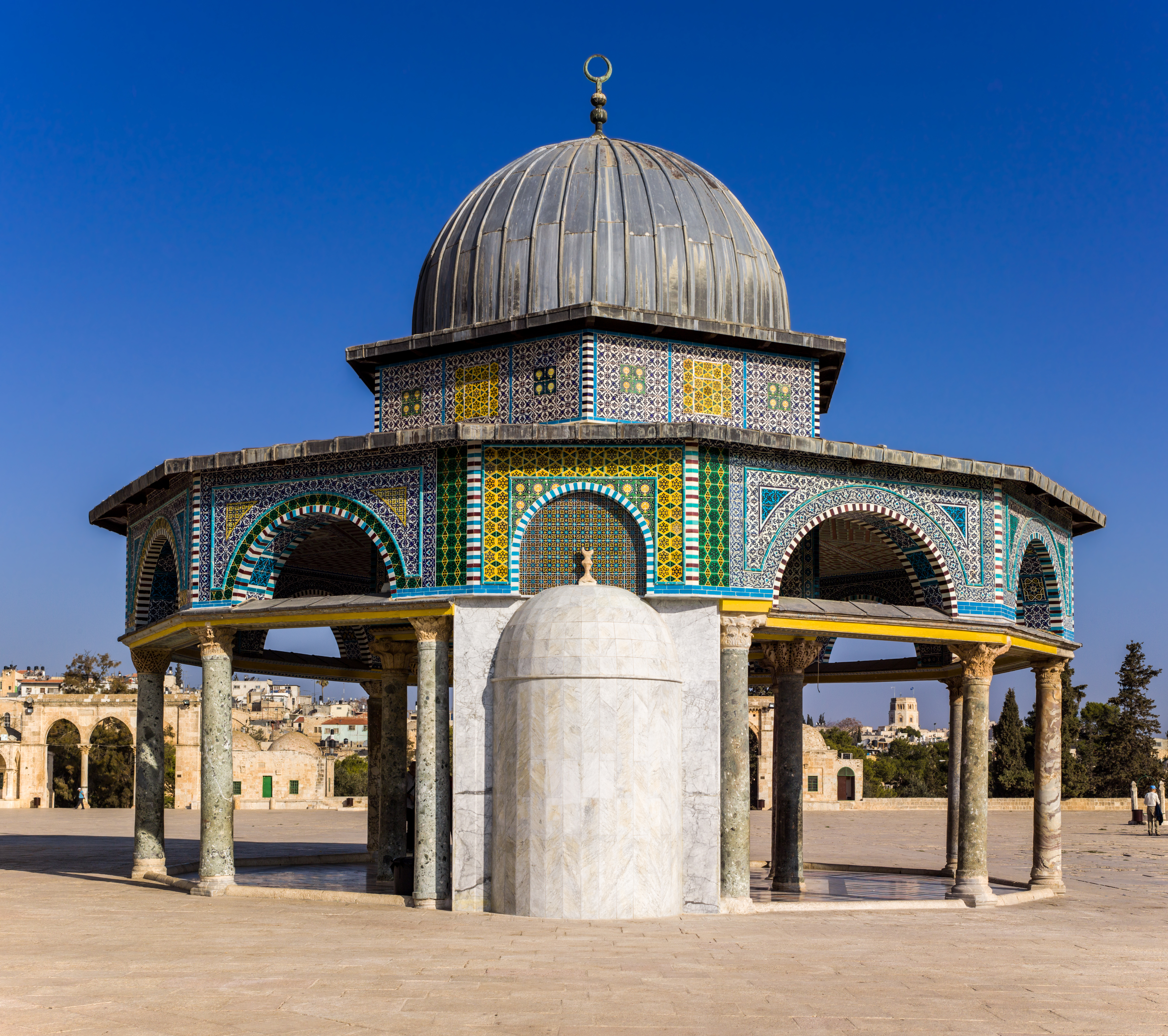 The Dome of the Chain (Arabic: قبة السلسلة, Qubbat al-Silsila), on the Temple Mount in the Old City of Jerusalem. The Dome of the Chain was constructed during the Umayyad Caliphate (c. 685 AD) and served as a model for the building of The Dome of the Rock (Arabic: مسجد قبة الصخرة, Hebrew: כיפת הסלע) (c. 691 AD).